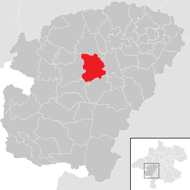 District Vöcklabruck